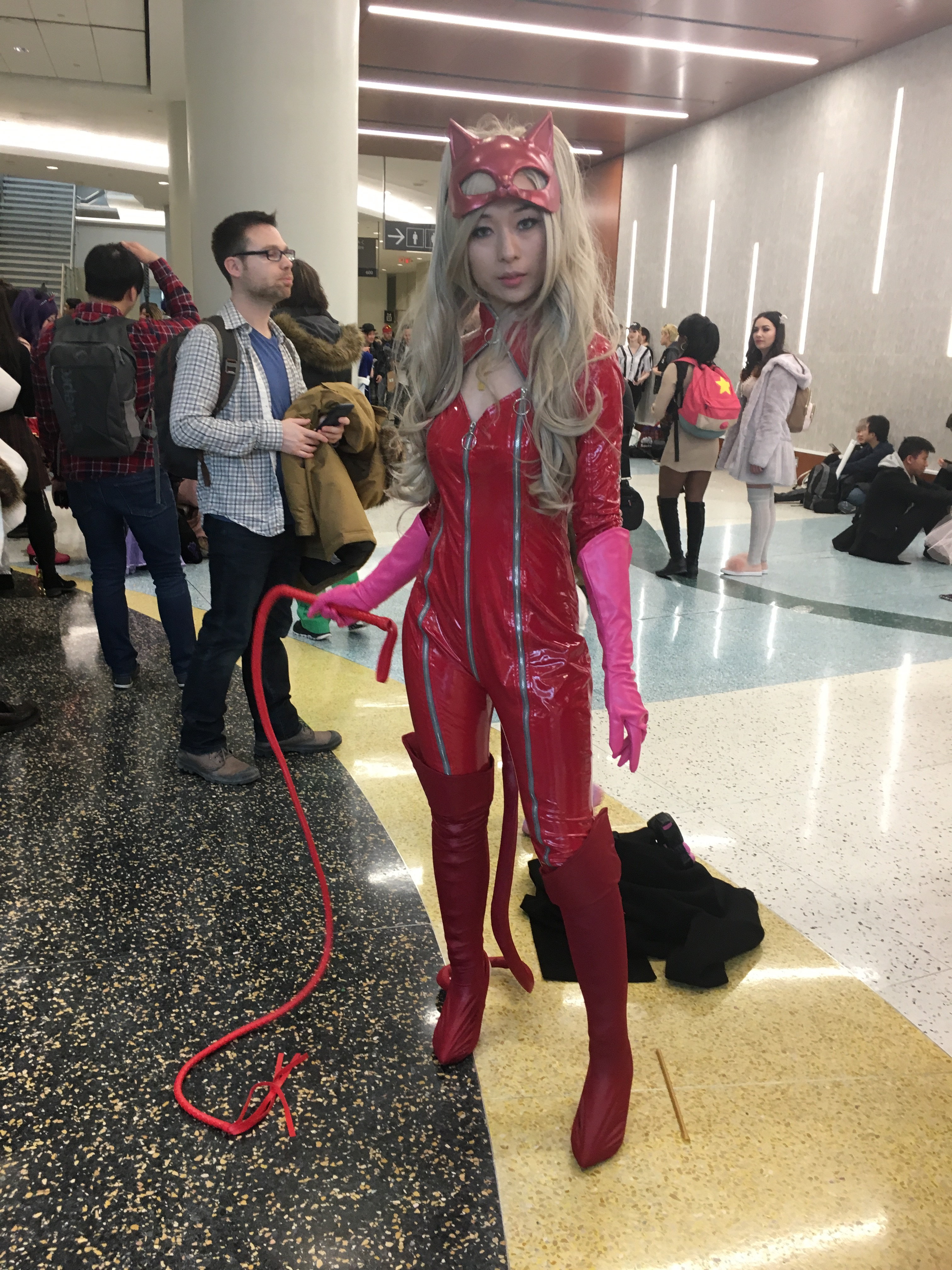 Cosplay at Toronto Comicon 2018.